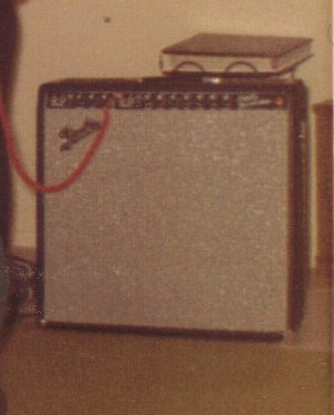 1967 Black Face Fender Super Reverb